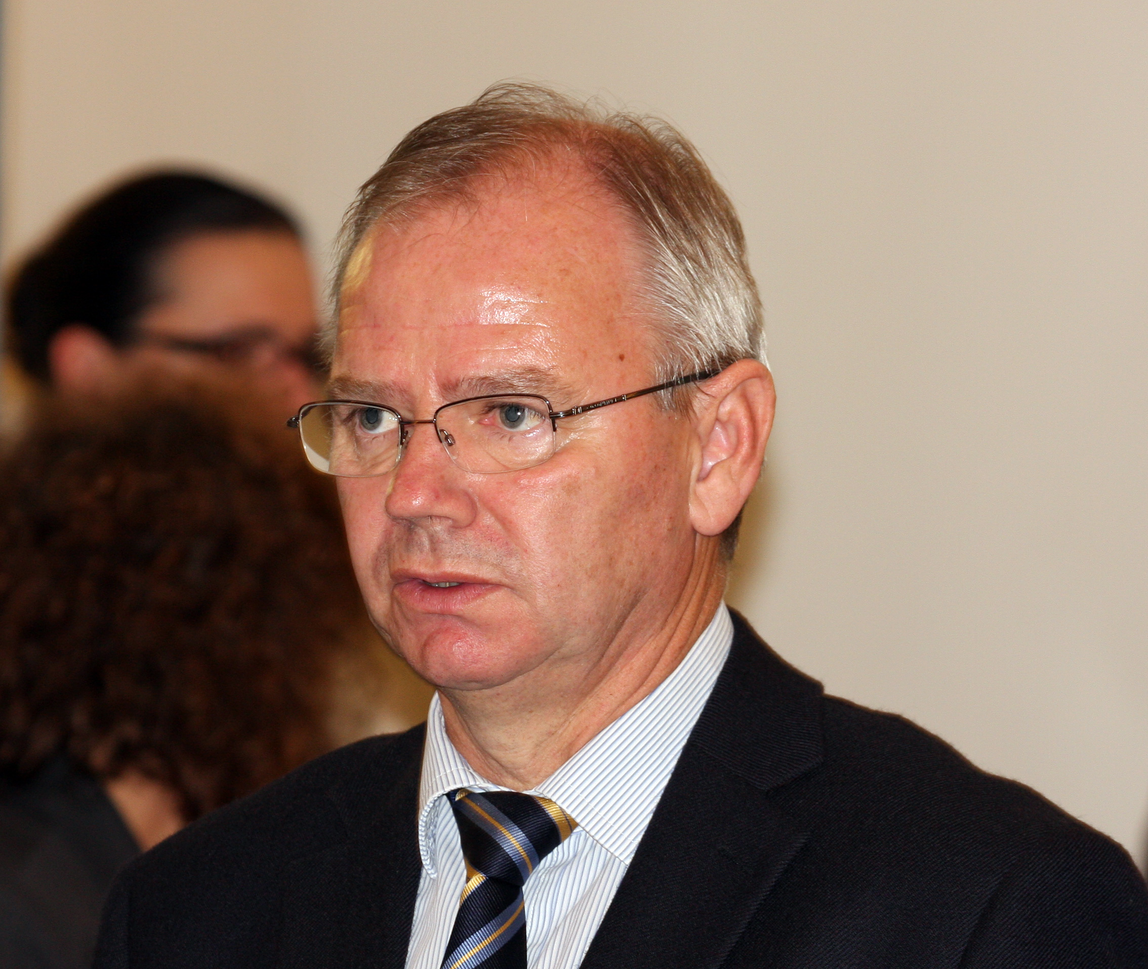 Danilo Zavrtanik, Slovene physicist, attending the Zei award ceremony at the National institute of Biology, Ljubljana.